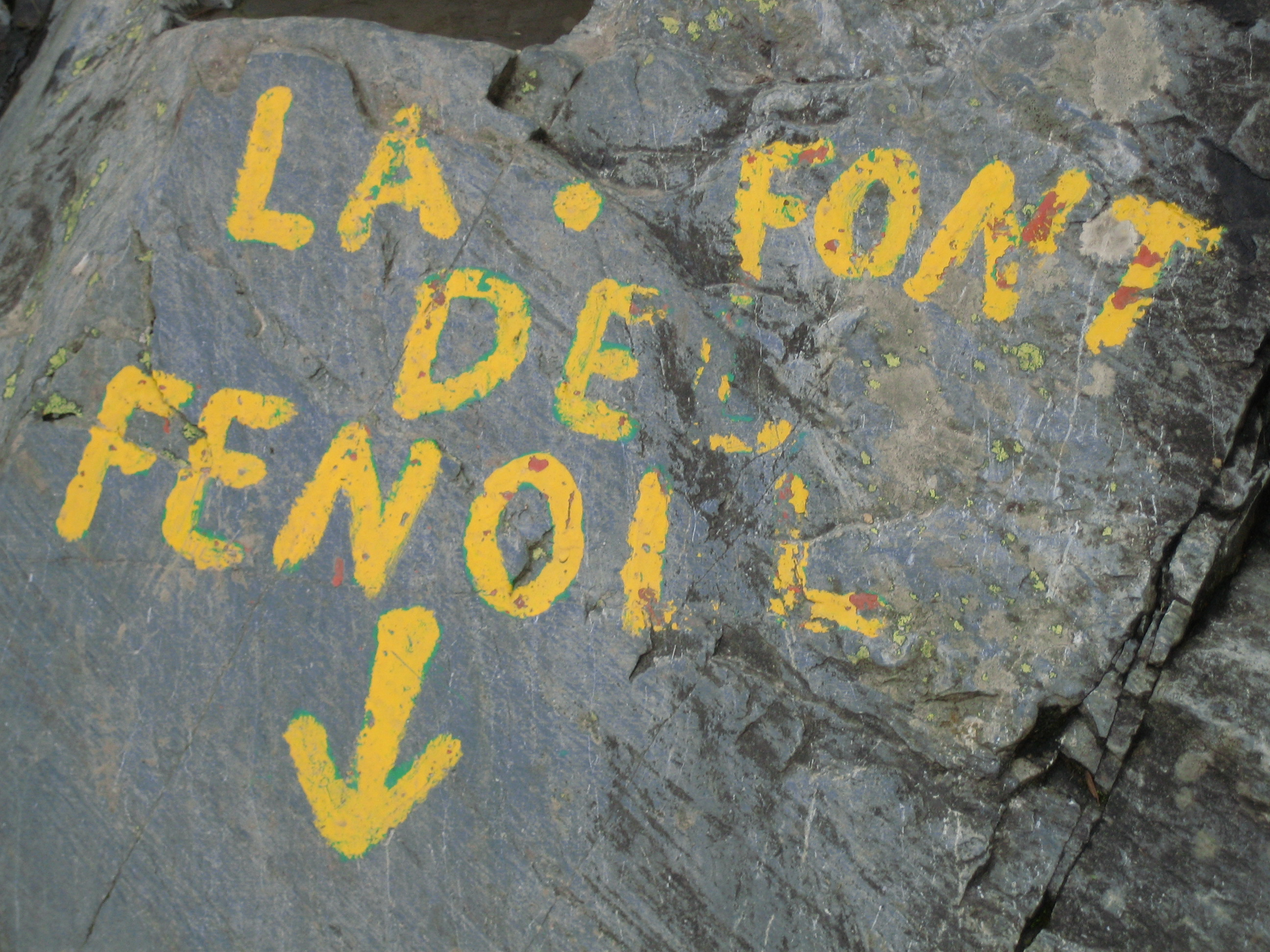 Font del Fenoll sign (near Riu de Coma Pedrosa river), Arinsal, La Massana, Andorra